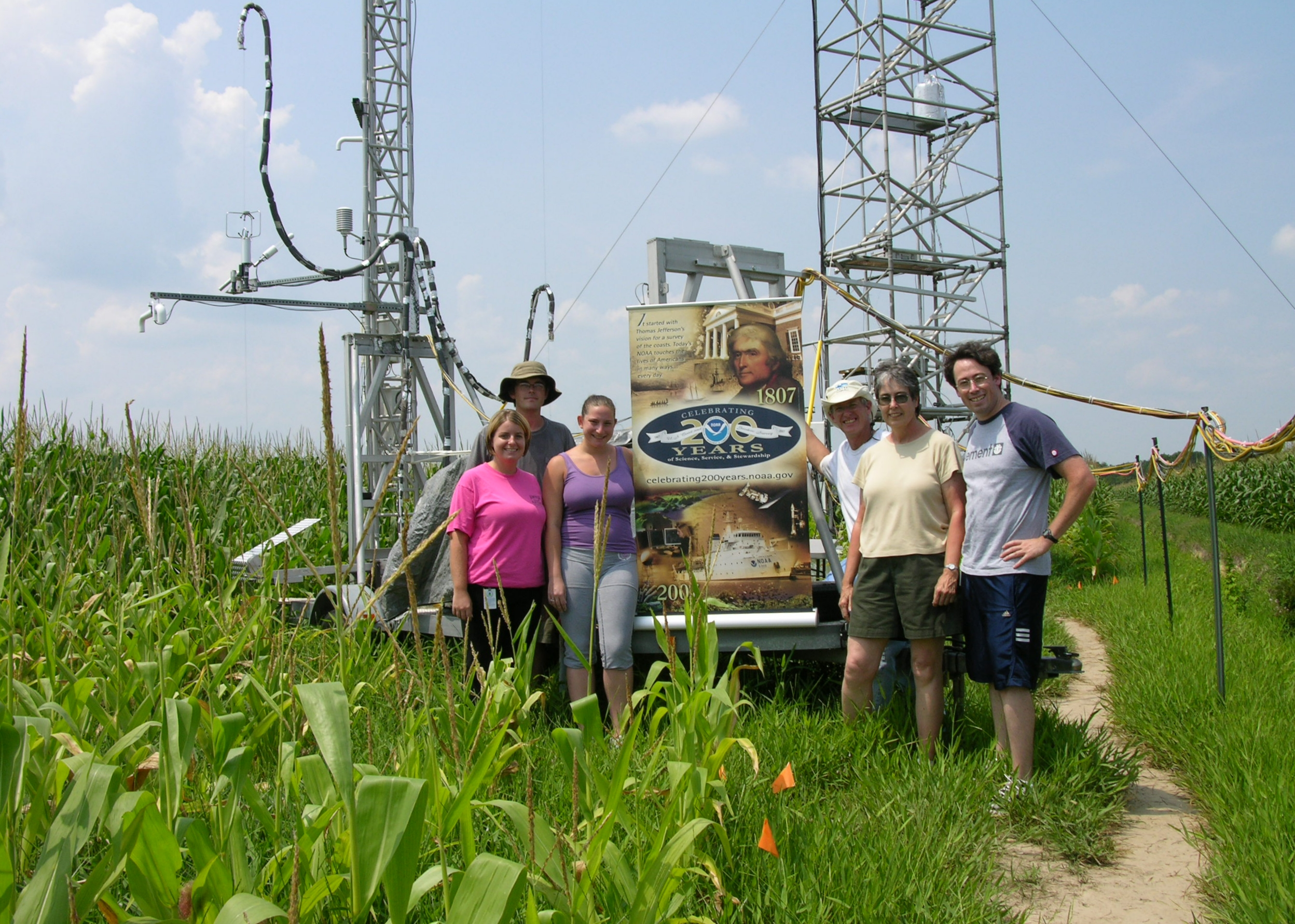 Greetings from the (corn) field! The Air Resources Laboratory is collaborating with the U.S. Environmental Protection Agency and North Carolina State University in a 3- year project to measure and model ammonia fluxes in forest and agricultural landscapes. In 2006 and 2007, the study has taken place in a 500-acre agricultural field in Lillington, NC where weather conditions have taxed both the equipment and the scientists. Ammonia fluxes were measured from pre-planting through plant senescence. The results from this unique study will improve our understanding and simulation of soil-vegetation-atmospheric fluxes of ammonia that impact our air and water quality and terrestrial and aquatic ecosystem health. Pictured (from left): Mary Hicks, John T. Walker, Lauren Elich, Tilden Meyers, R. Laureen Gunter, and Jesse Bash.